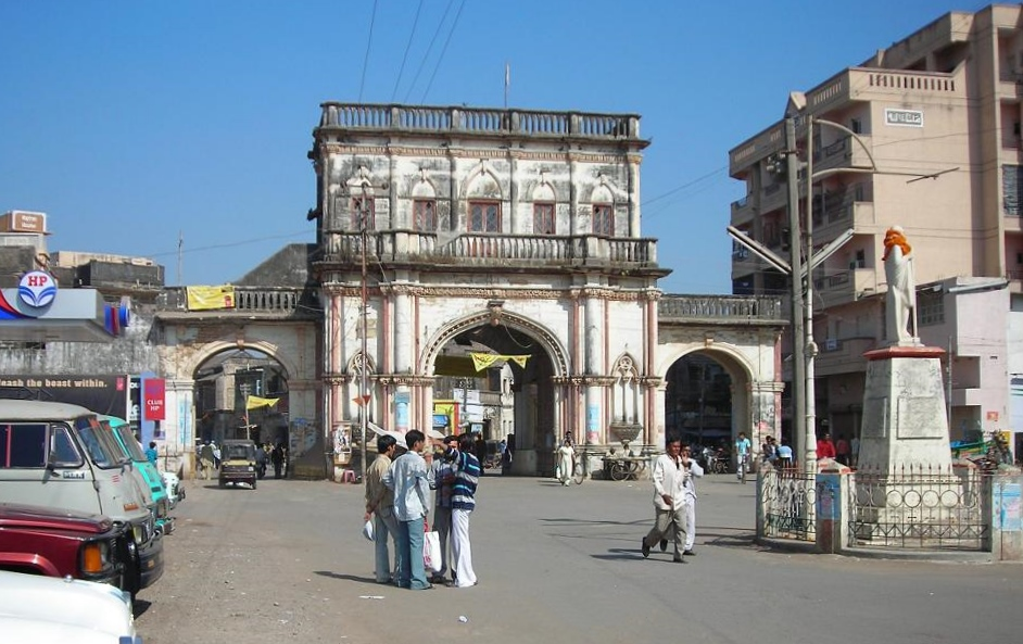 Famous three gates of Dhoraji fort.